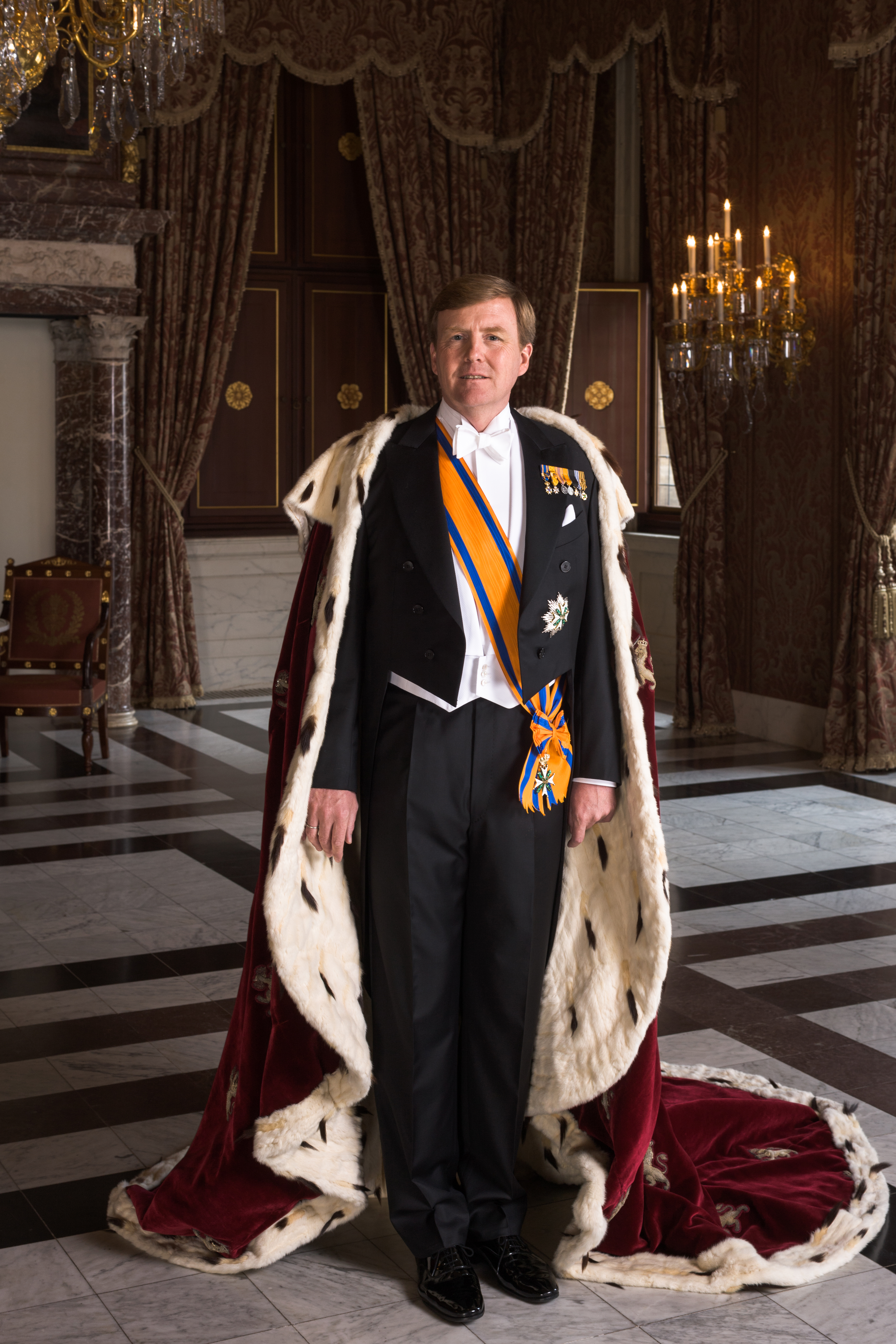 Zijne Majesteit Koning Willem-Alexander met koningsmantel, april 2013.